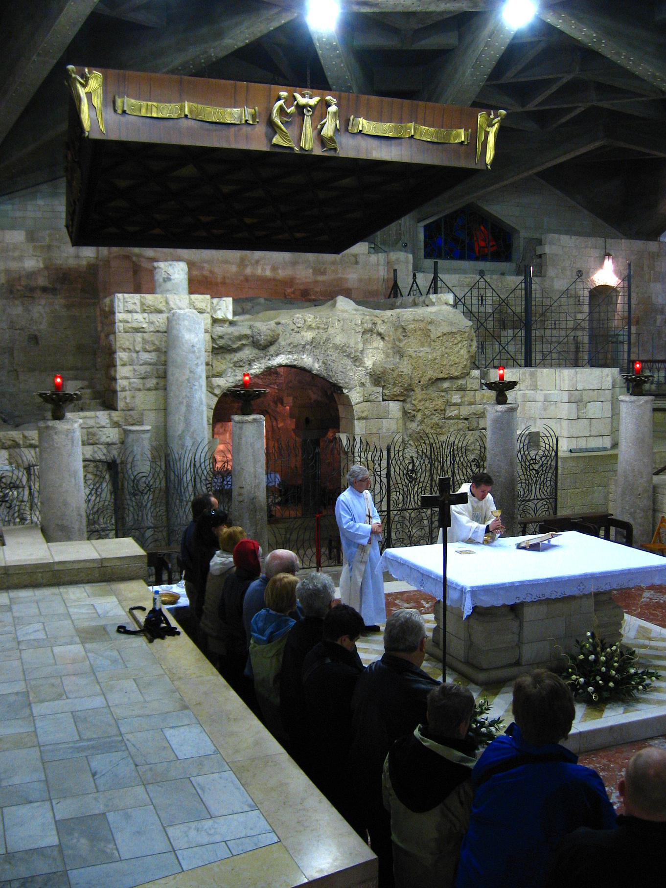 Catholic Mass in the Grotto of the Annunciation where, according to the Roman Catholic tradition, the Annunciation took place, and believed by many Christians to be the remains of the original childhood home of Mary. Location: Church of the Annunciation, Nazareth, Israel.